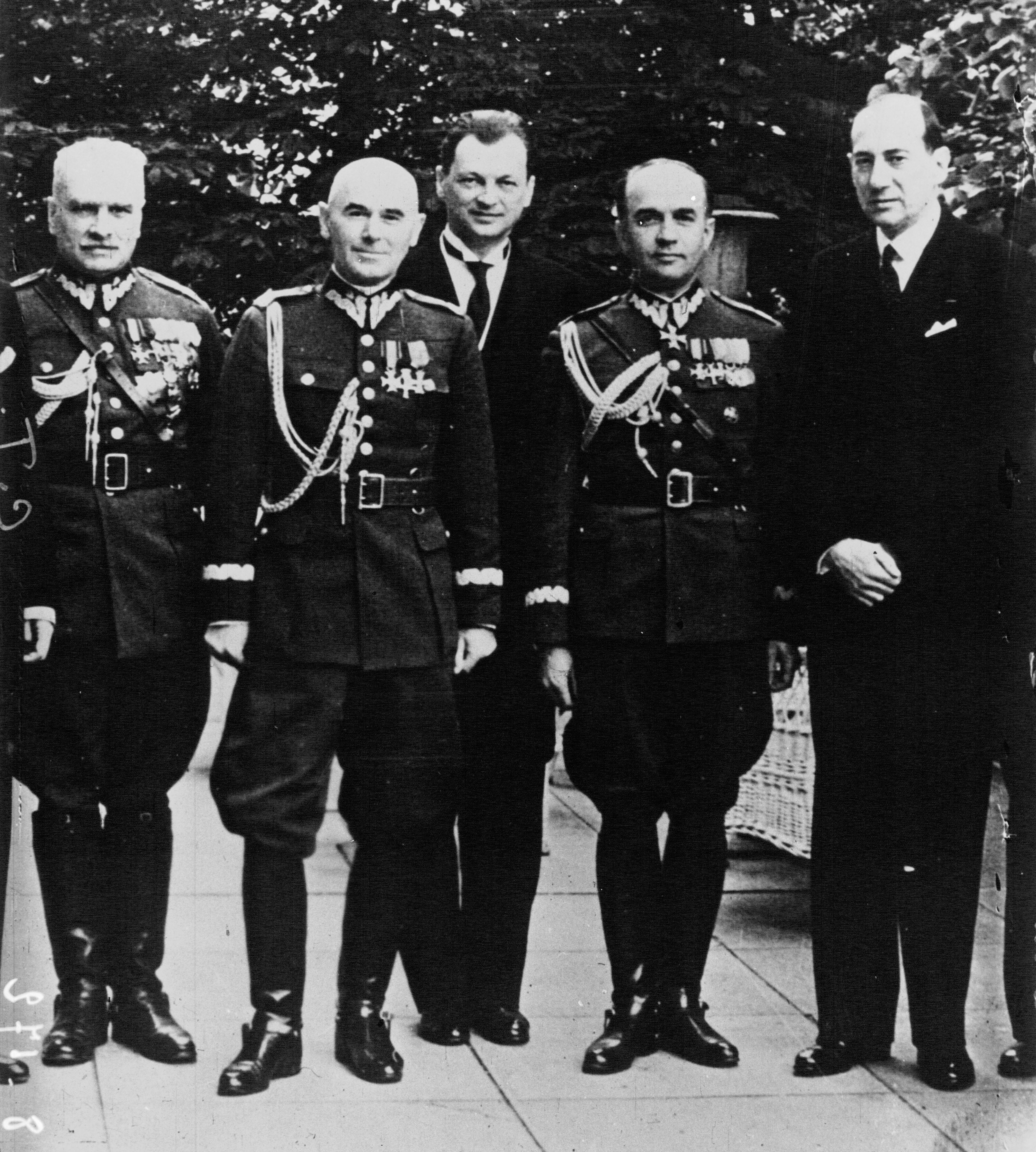 Main government ministers of Poland in 1936. From left to right:– Władysław Sikorski, Minister of the Interior– Edward Rydz-Śmigły, Marshal of Poland– Witold Grabowski, Minister of Justice– Tadeusz Kasprzycki, Minister of War– Józef Beck, Minister of Foreign Affairs